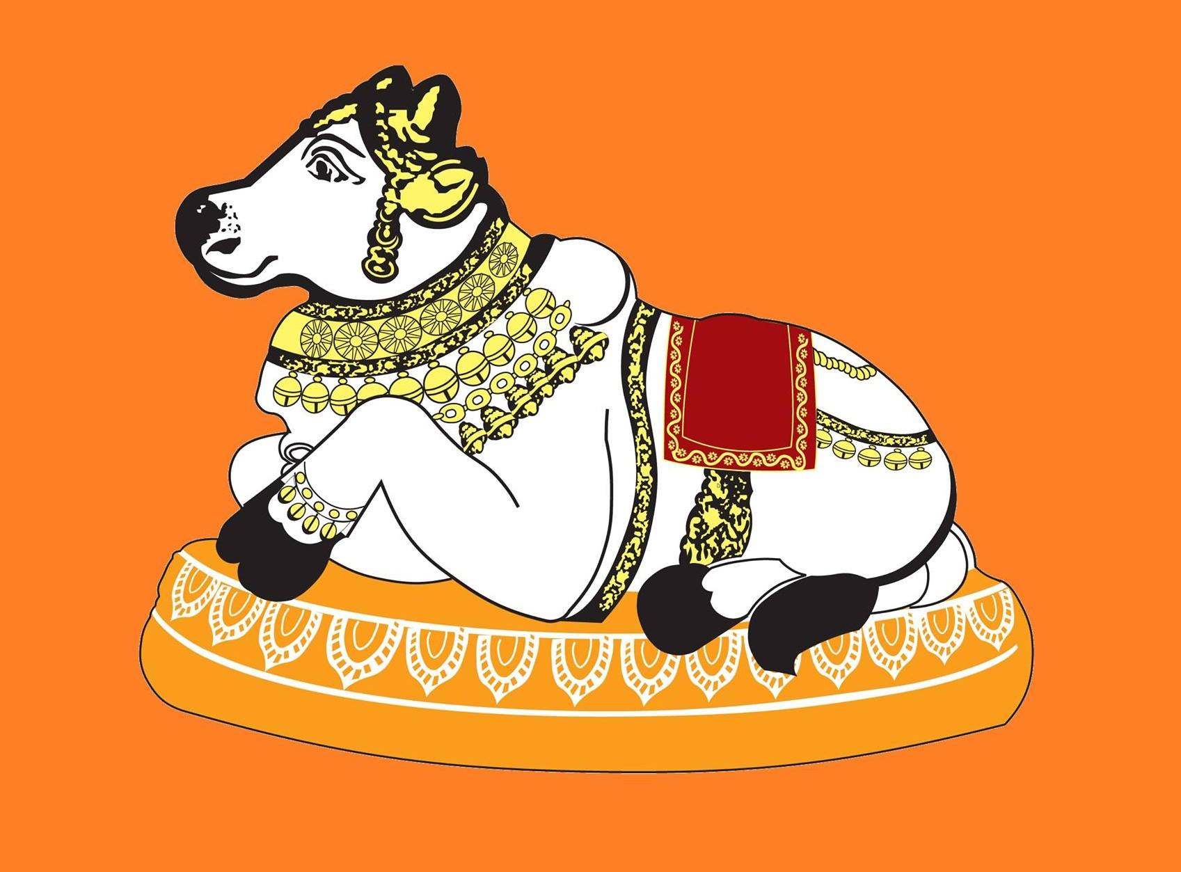 Flag of Nandi or Holy bull, is the official flag of Hindu Saivism all over the world.